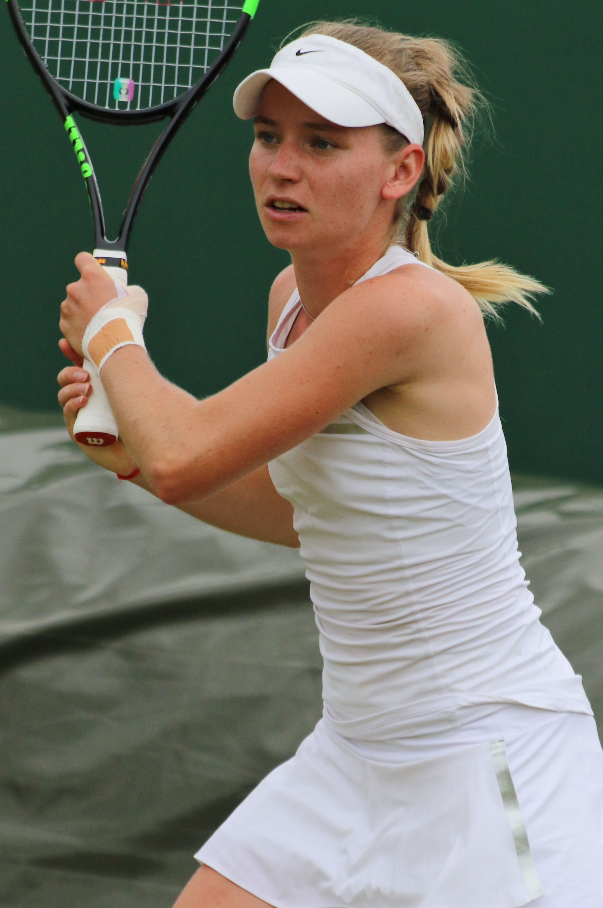 2019 Wimbledon Qualifying Tournament.